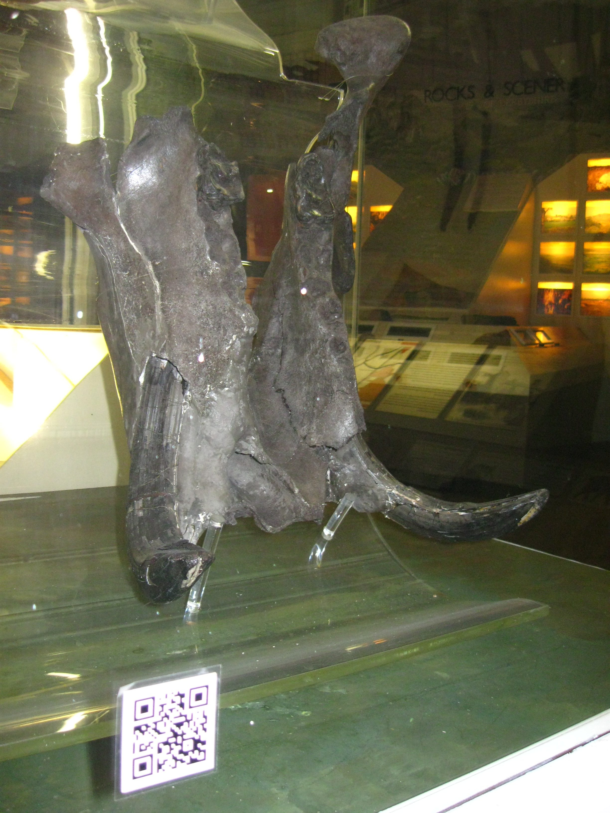 Fossil skull of a hippopotamus on display at Derby Museum, England. It shows the first ever use by a museum of QR codes that were automatically generated direct from Wikipedia pages. Devised by user:Fæ in February 2011, this coding was under trial at the time this photo was taken. The code was later replaced with a QRpedia code.